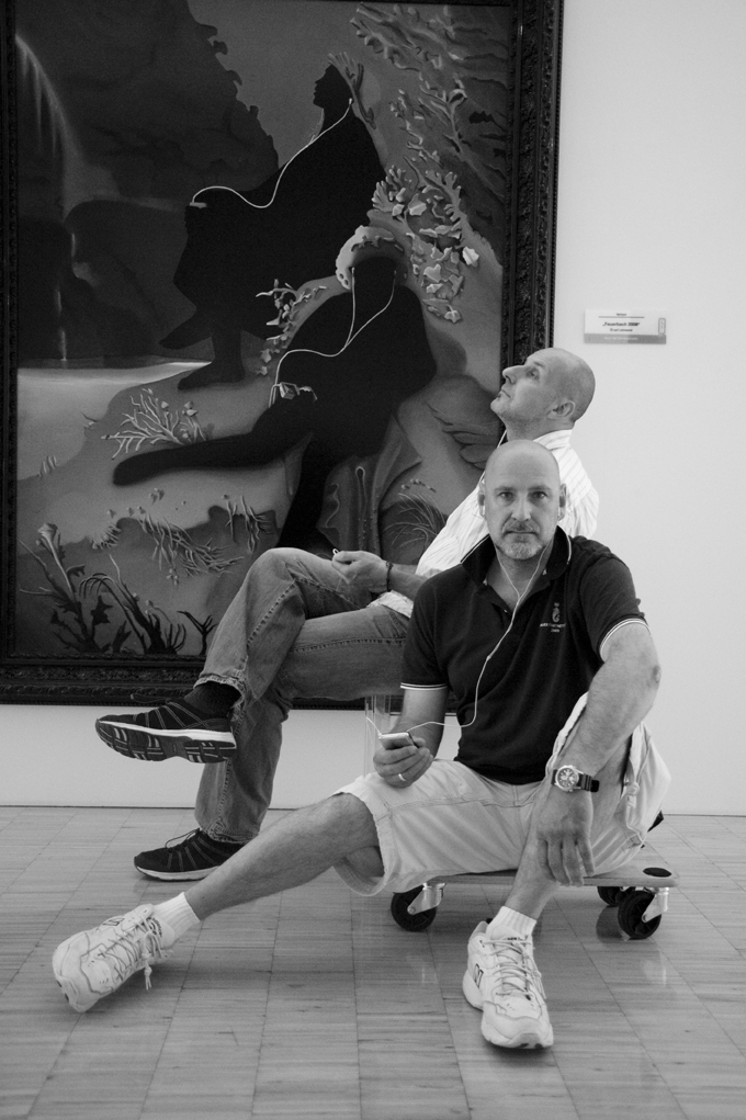 Thorsten and Kai Wingenfelder (Ex Fury in the Slaughterhouse) in front of the painting "Feuerbach 2008" from artist Ralf Metzmacher. Exhibition "From Puma to Pan"